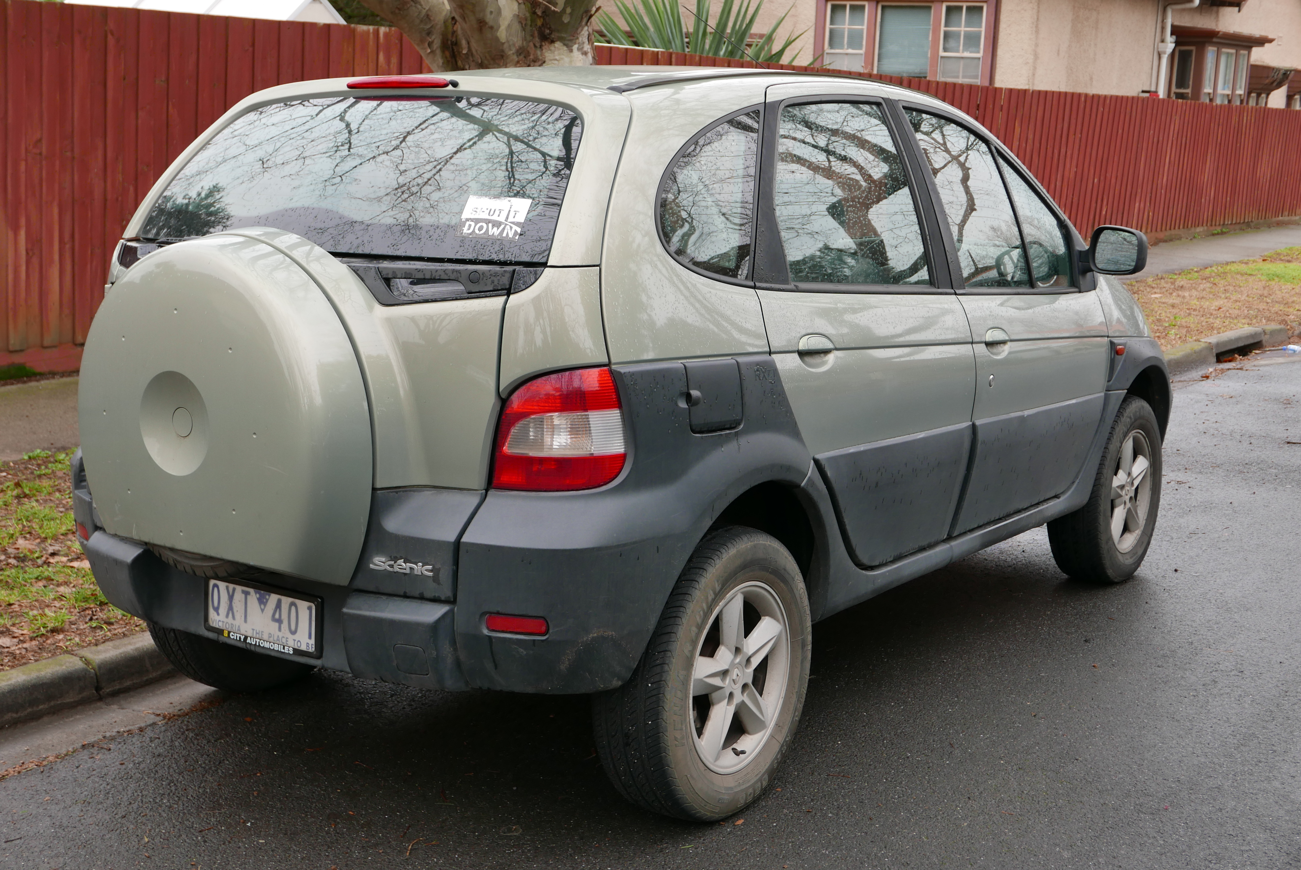 2001 Renault Scénic RX4 (J64 Phase 2) Privilege hatchback. Photographed in Alphington, Victoria, Australia. Vehicle registration enquiry results Jurisdiction Victoria Registration QXT401 Chassis code VF1JAB30E10603992 Engine code D014886 Compliance date 2001-06 Year of manufacture 2001